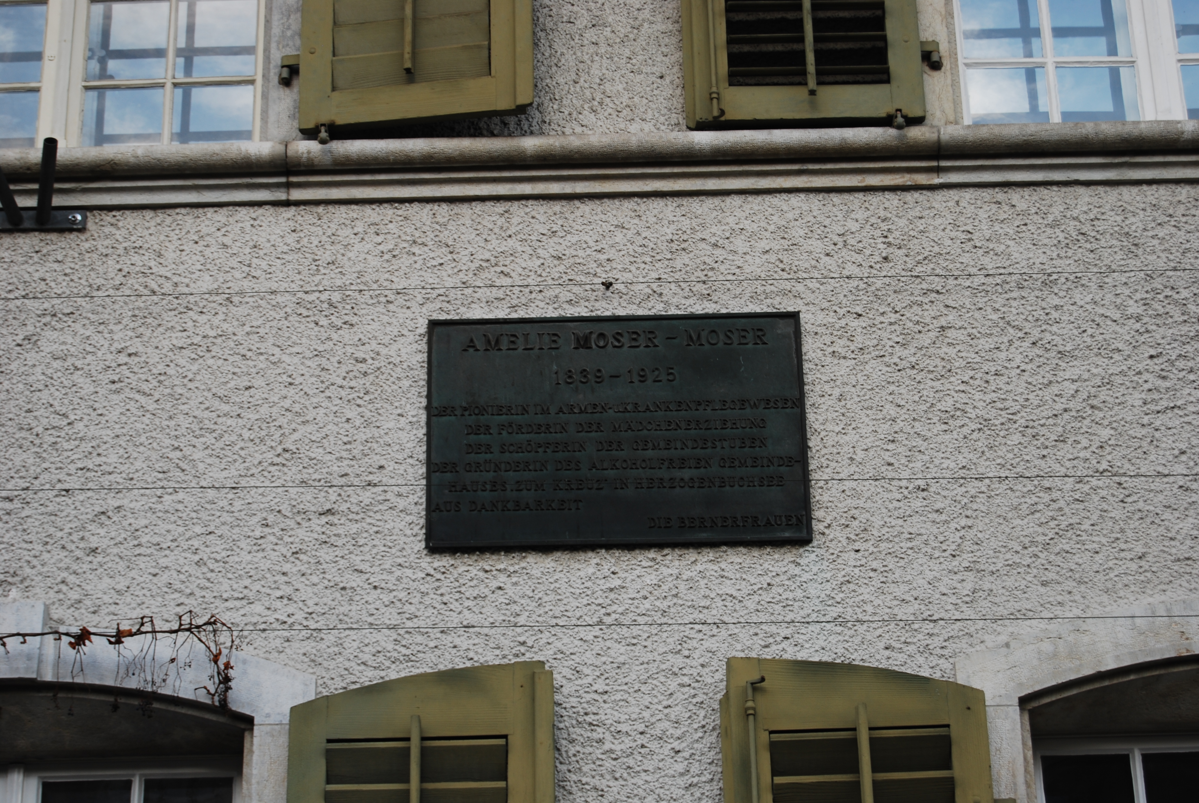 Amélie Moser memory table at Herzogenbuchsee, canton of Bern, Switzerland